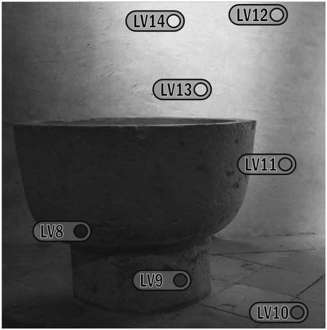 Illustation of light values on a picture. The highlight is LV14 and shows sunlight coming through a window onto a white wall. The darkest tones are LV8 and the mid-value is LV11. Photo by Henrik Jessen